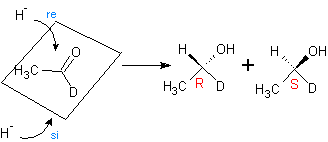 Reduction of acetaldehyde, prochiral faces